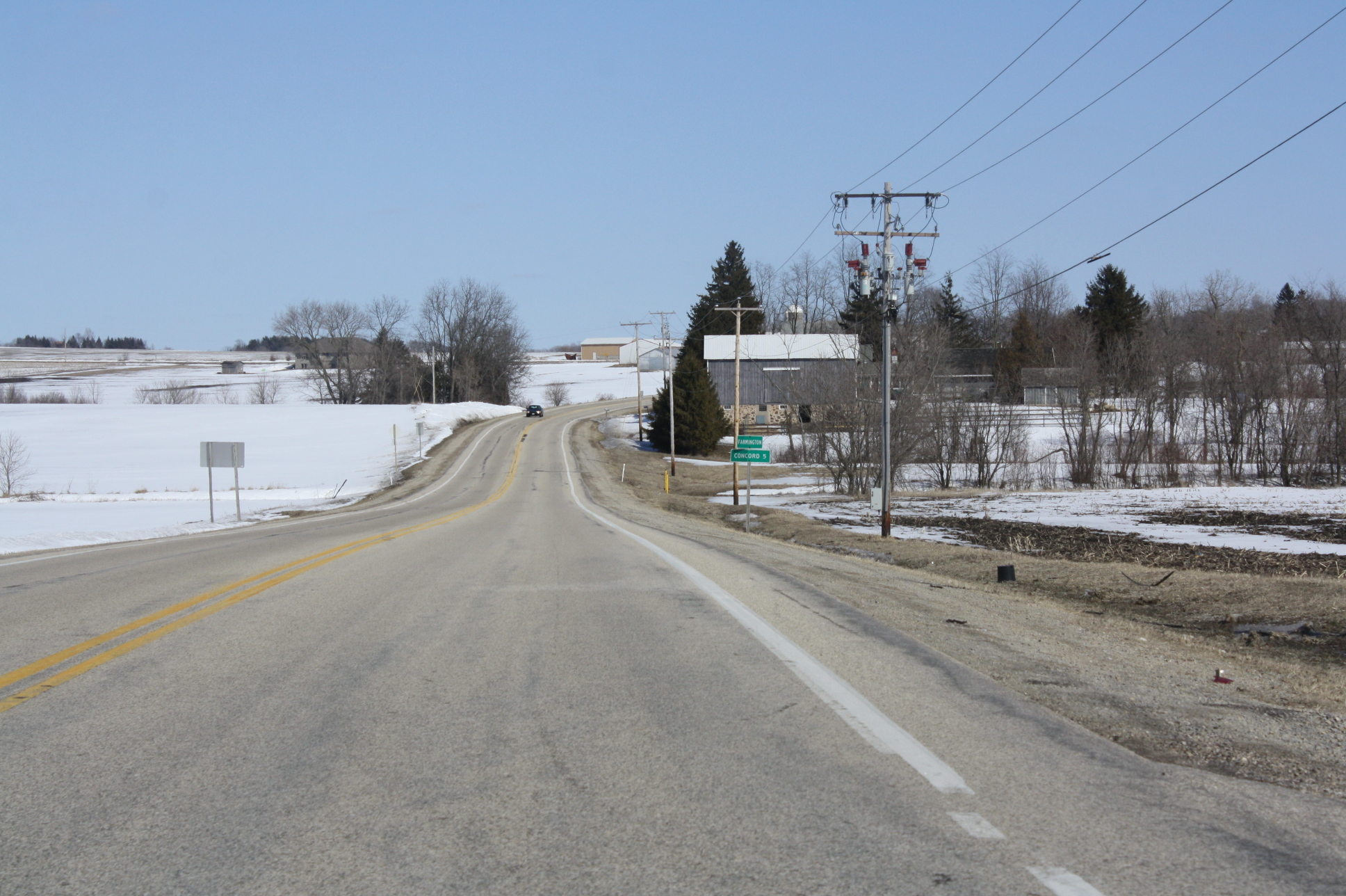 Looking east down County B at Farmington (community), Wisconsin in Jefferson County.